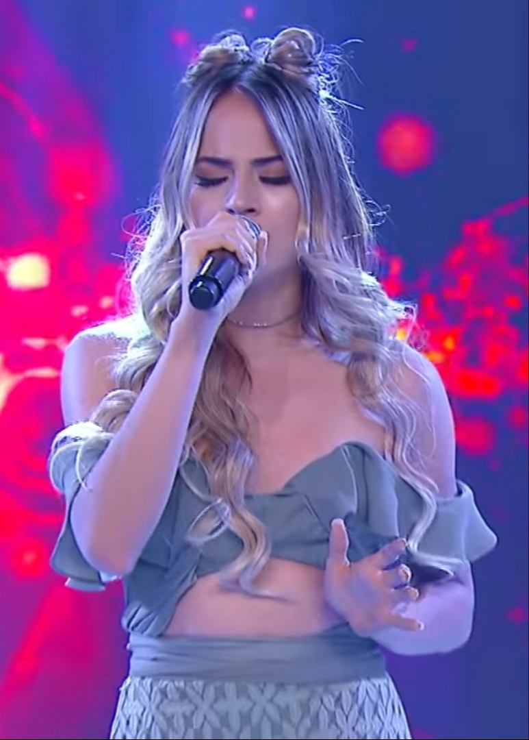 Gabi in 2018